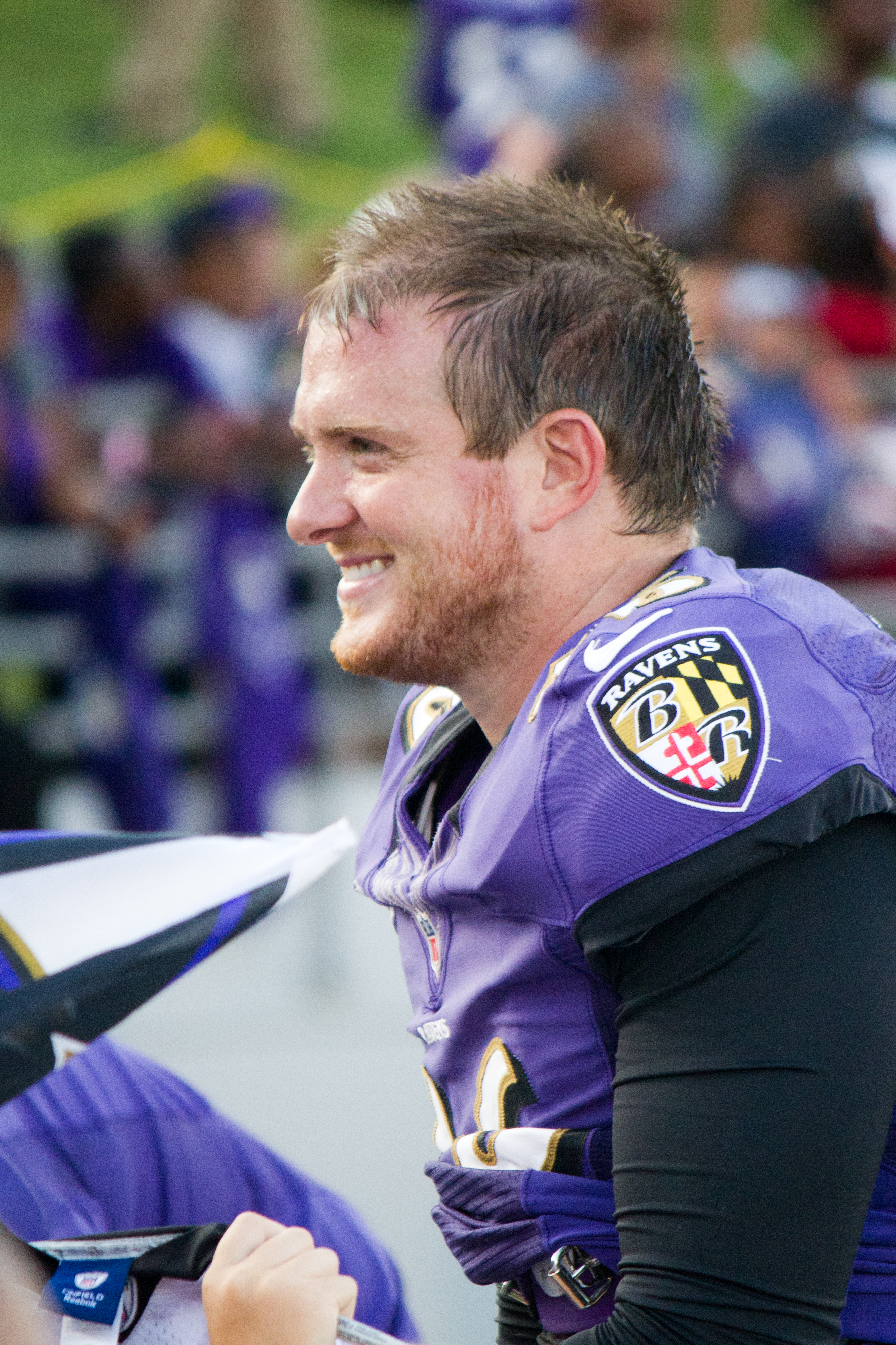 Morgan Cox, Ravens practice at Navy–Marine Corps Memorial Stadium practice, August 2012.